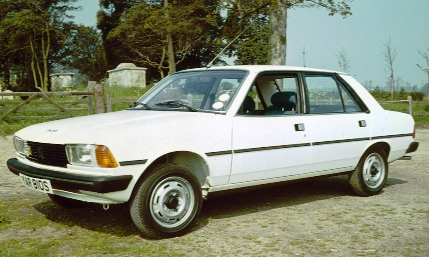 Peugeot 305 GL en Angleterre (Navestock) DVLA data: First registered UK May 1978 Manufactured 1978 Cylinder capacity 1472 cc Not taxed for UK road use after November 1986